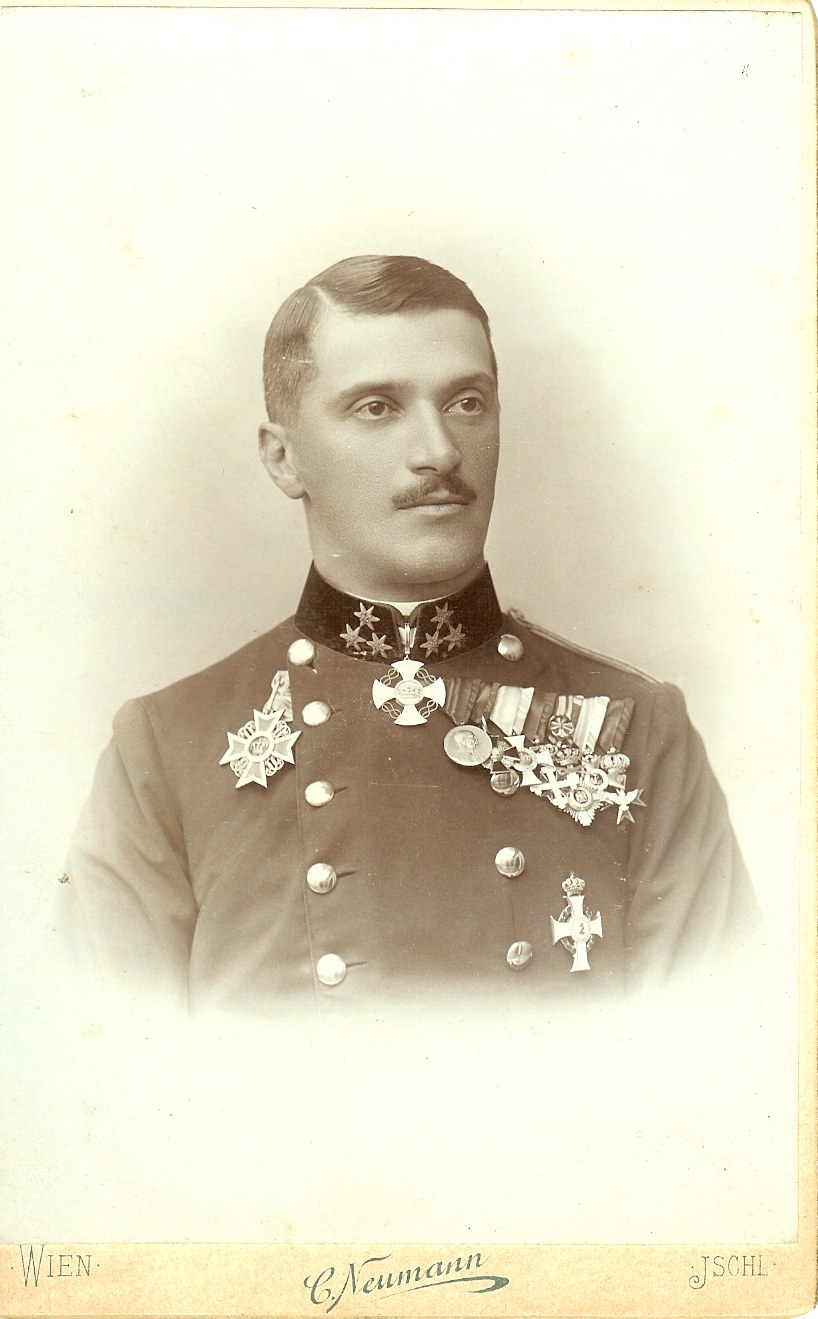 Portrait of General Margutti